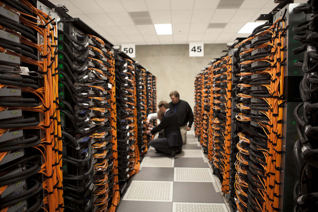 The Blue Gene/Q supercomputer at Argonne National Laboratory debuted as the world's third fastest supercomputer. It is capable of 10 quadrillion floating-point operations per second and is entirely devoted to scientific research.[1]